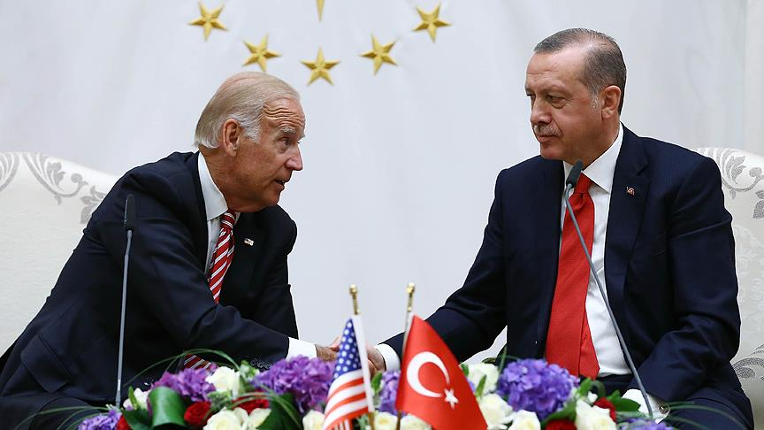 VP Joe Biden meeting in Ankara with President Erdogan on 24 July 2016